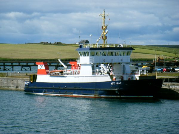 The Orkney Ferries vessel MV Hoy Head alongside at Lyness, Hoy. IMO Number: 9081722 MMSI Number: 235018919 Callsign: MSQD2 Length: 40 m Beam: 10 m